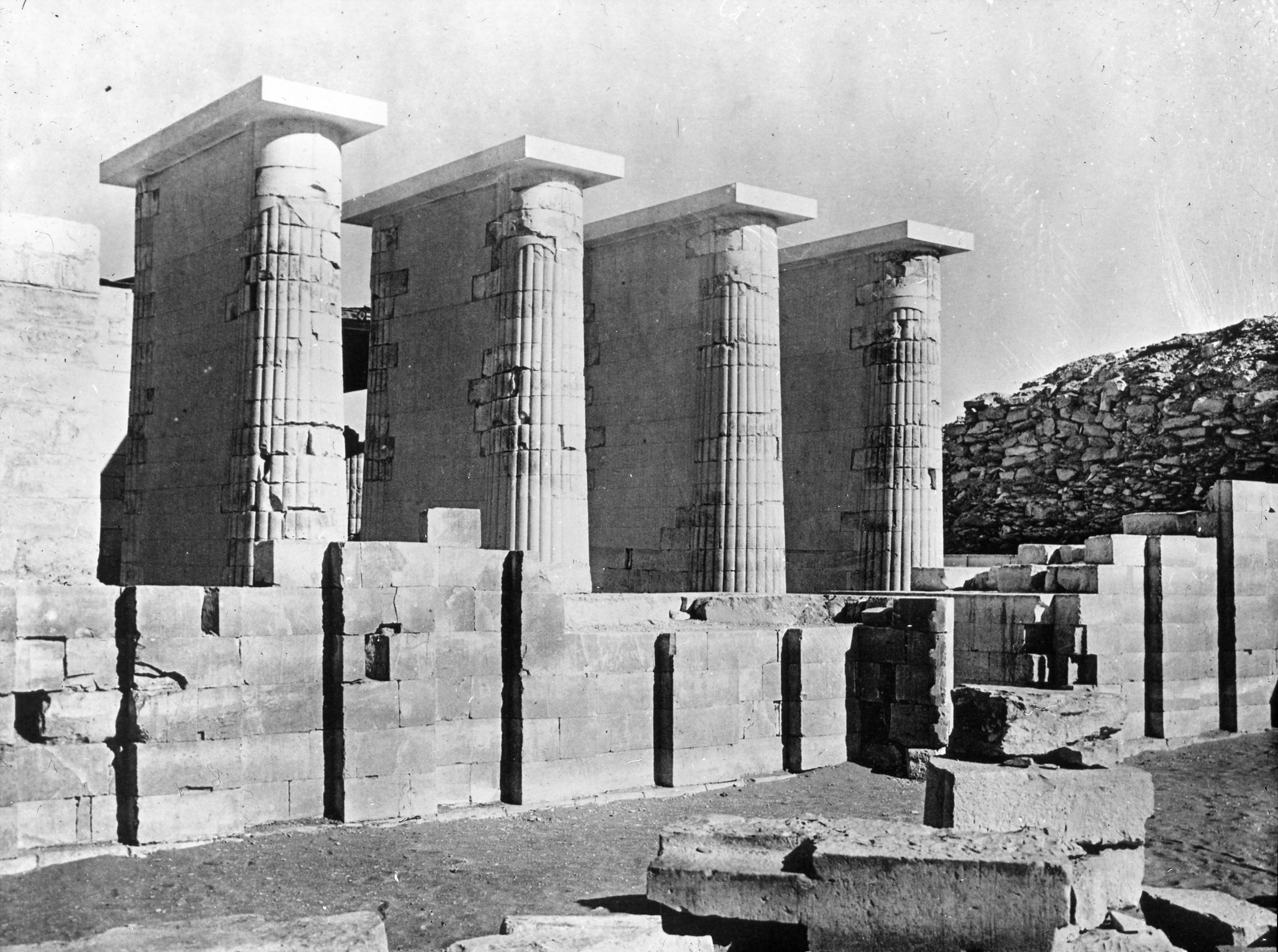 Lantern Slide Collection: Views, Objects: Egypt. Sakkara [selected images]. View 03: Egyptian - Old Kingdom. Step Pyramid, Sakkara, 3rd Dyn. West colonnade., n.d. Brooklyn Museum Archives (S10.08 Sakkara, image 9629).